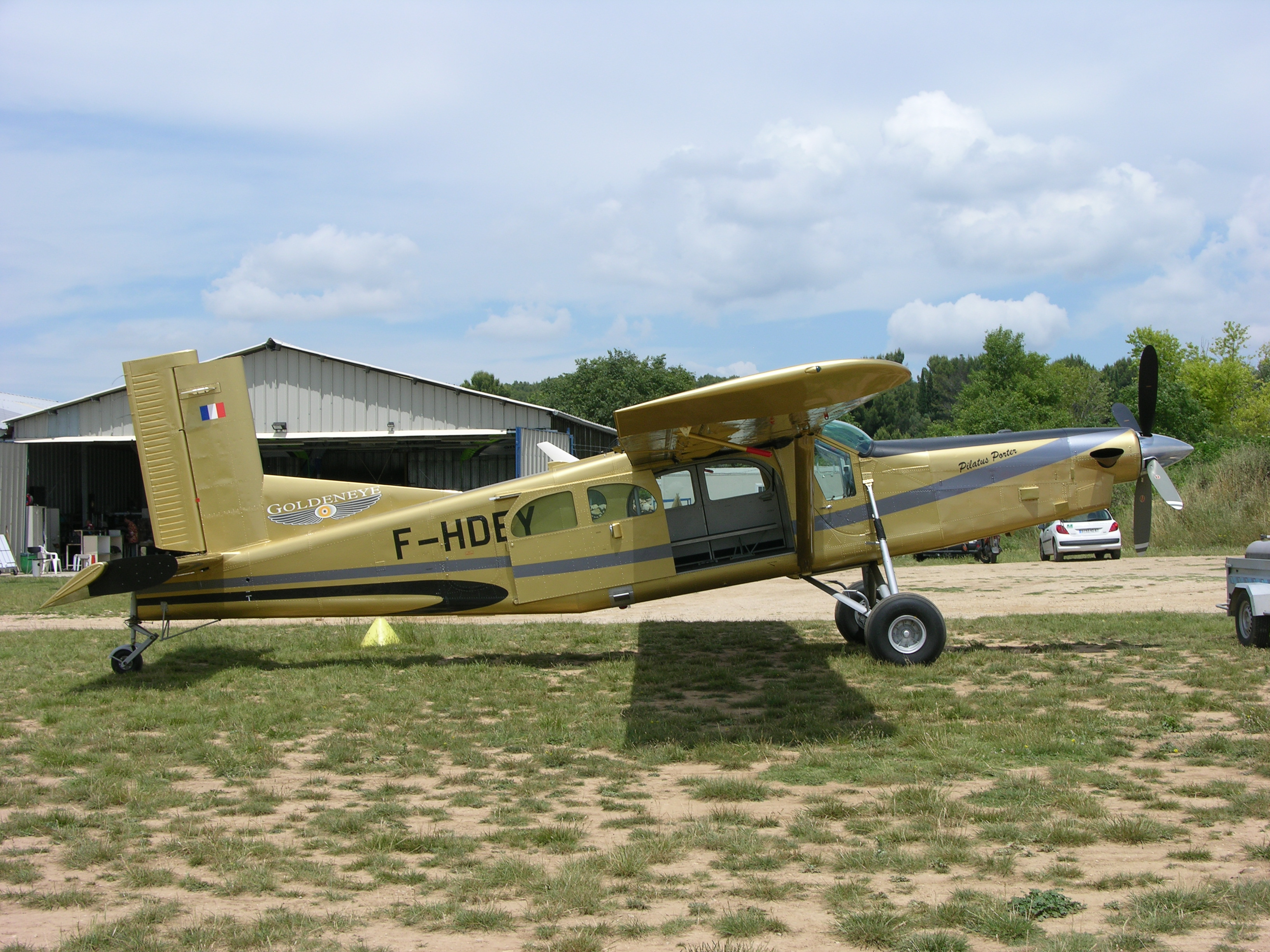 Since 2008, this Porter is in use as a parachute aircraft at Nimes Courbessac airfield in the South of France. It was used in the James Bond film "Goldeneye" and carries the name to commemorate the fact. In the film it was wearing a Russian red star. At this time, this PC-6 was use by the swiss compagny Air Glaciers under the immatriculation HB-FFW (1980-2007). S/N 735 on